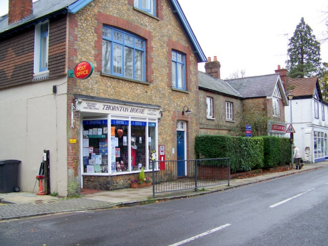 Post Office, Grayshott. The post office/shop at Thornton House.